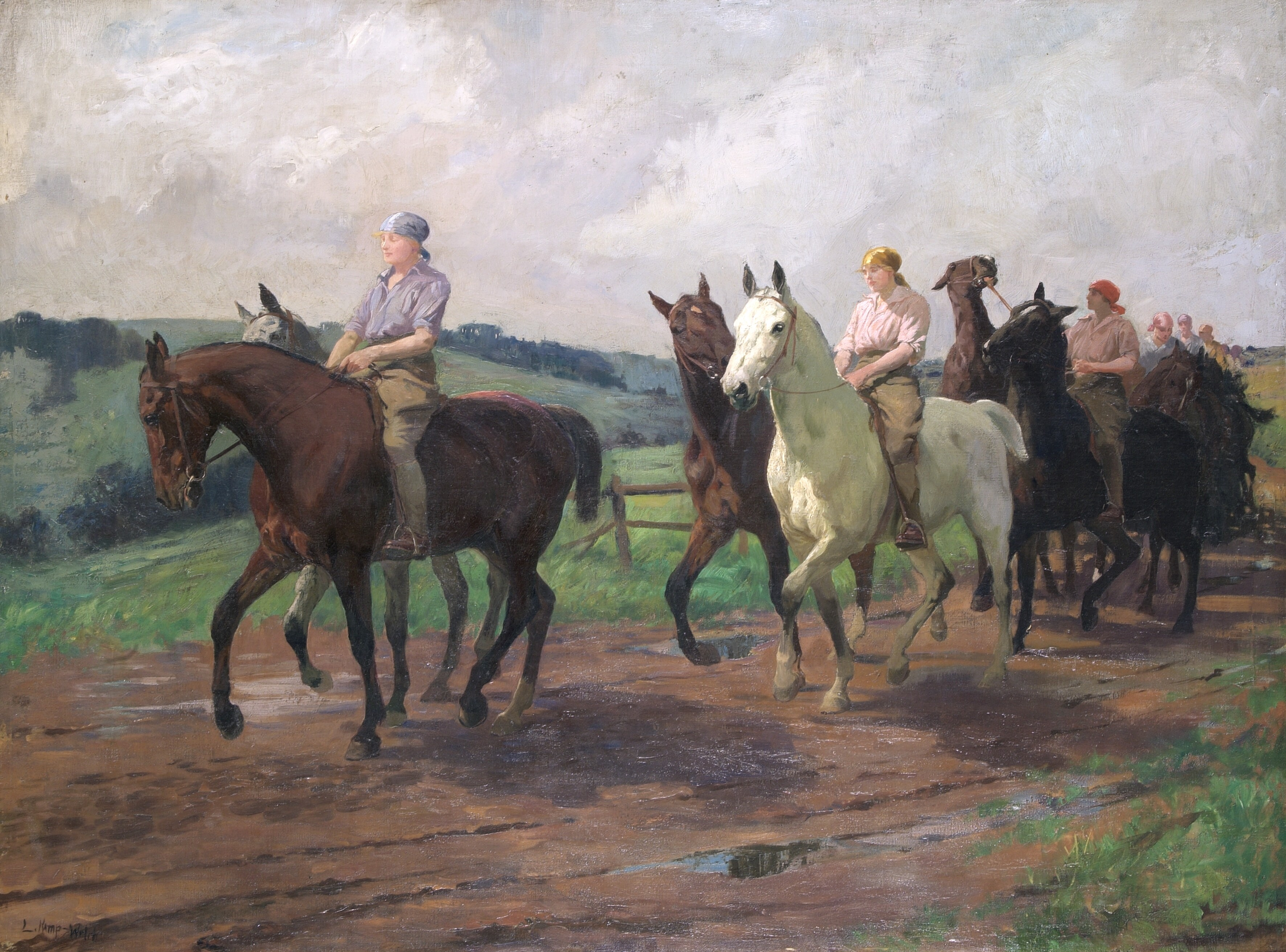 The Ladies' Army Remount Dep't, Russley Park, Wiltshire, 1918 image: A group of women riders exercising pairs of horses. They break into a trot along an unsurfaced road. In the background the hills and fileds roll off into the distance.